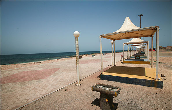 Abu Musa